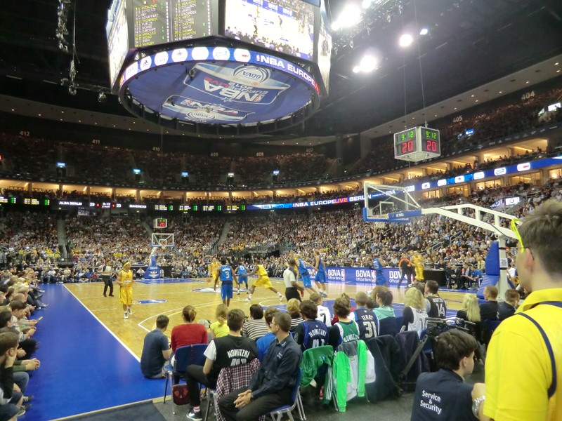 NBA Europe Live Tour Dallas Mavericks vs ALBA Berlin O2 World Berlin